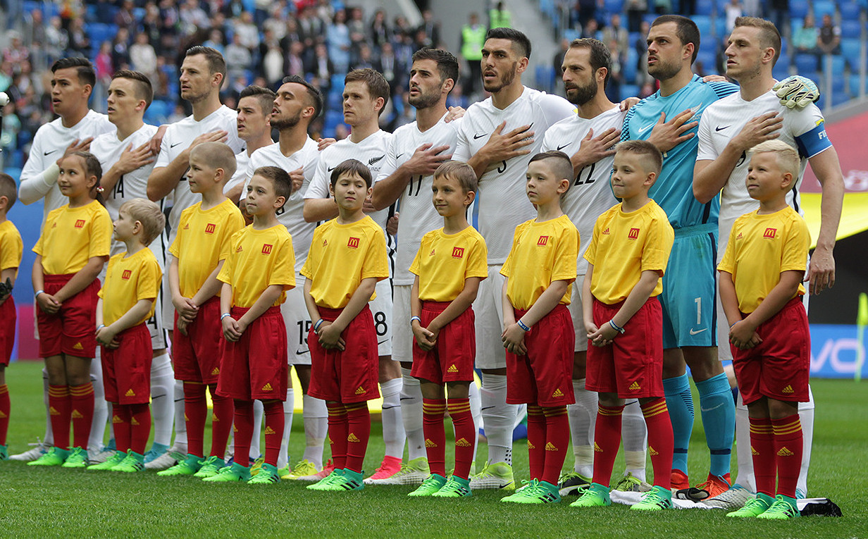 New Zealand VS. Portugal 0 - 4, 24 June 2017